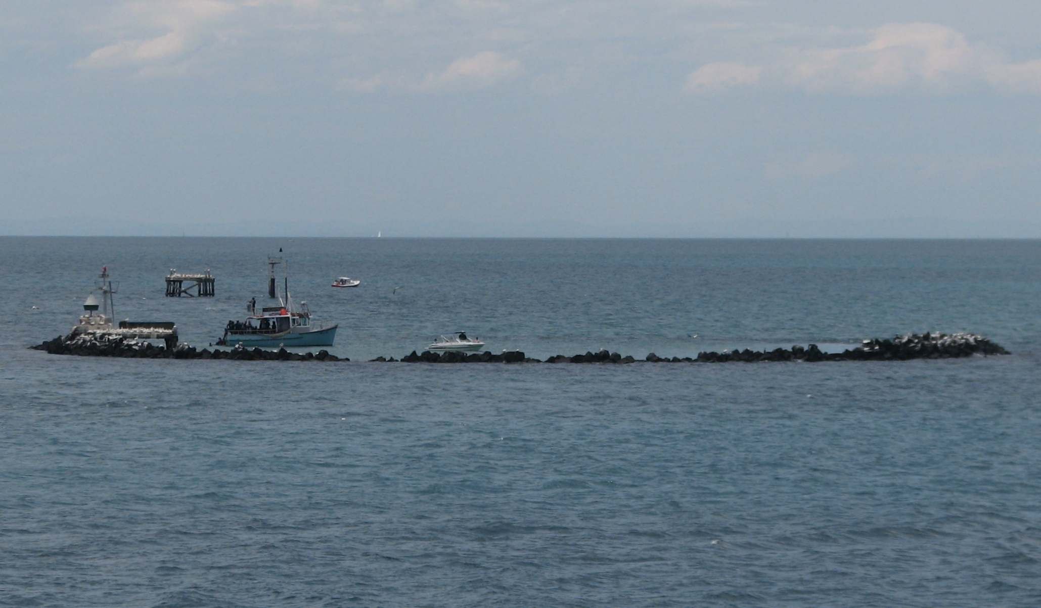 Popes Eye, Port Phillip Bay, Victoria, Australia